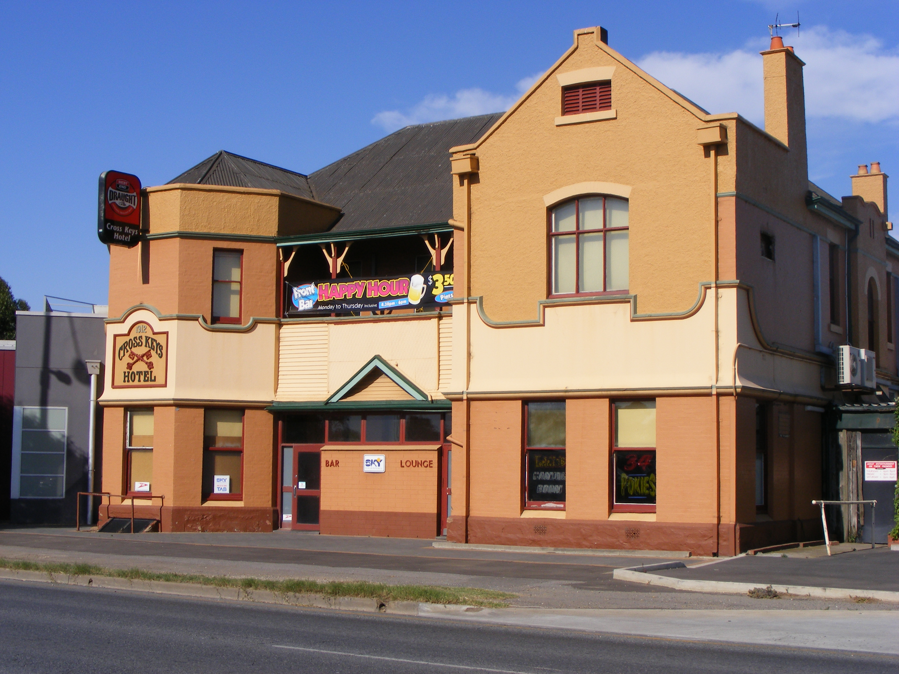 Front of the 1912 build (according to the sign) Cross keys hotel. Corner of Port Wakefield road and Montague Road, Adelaide, South Australia